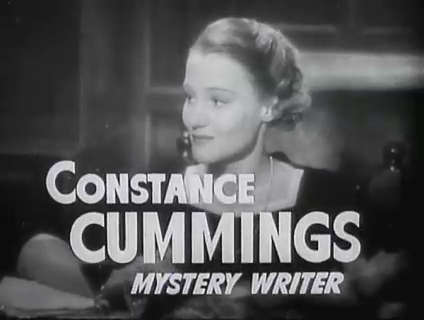 Constance Cummings in Haunted Honeymoon (1940)